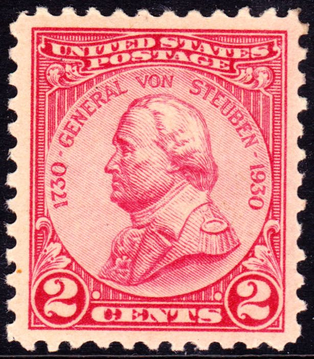 General_Von_Steuben_1930_Issue-2c.jpg